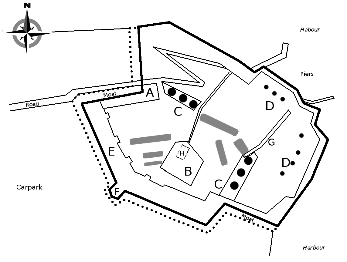 Rough outline plan of headland and fort of Camden Fort Meagher in Cork Harbour. Hand drawn using 19th century map (and own knowledge) as simple guide. NOT intended to be 100% accurate or to scale. Features: A - Barracks B - Square C - Upper Batteries D - Lower Batteries E - Terreplein and Ramparts F - Caponier G - "Bright Tunnel" H - Underground Magazine